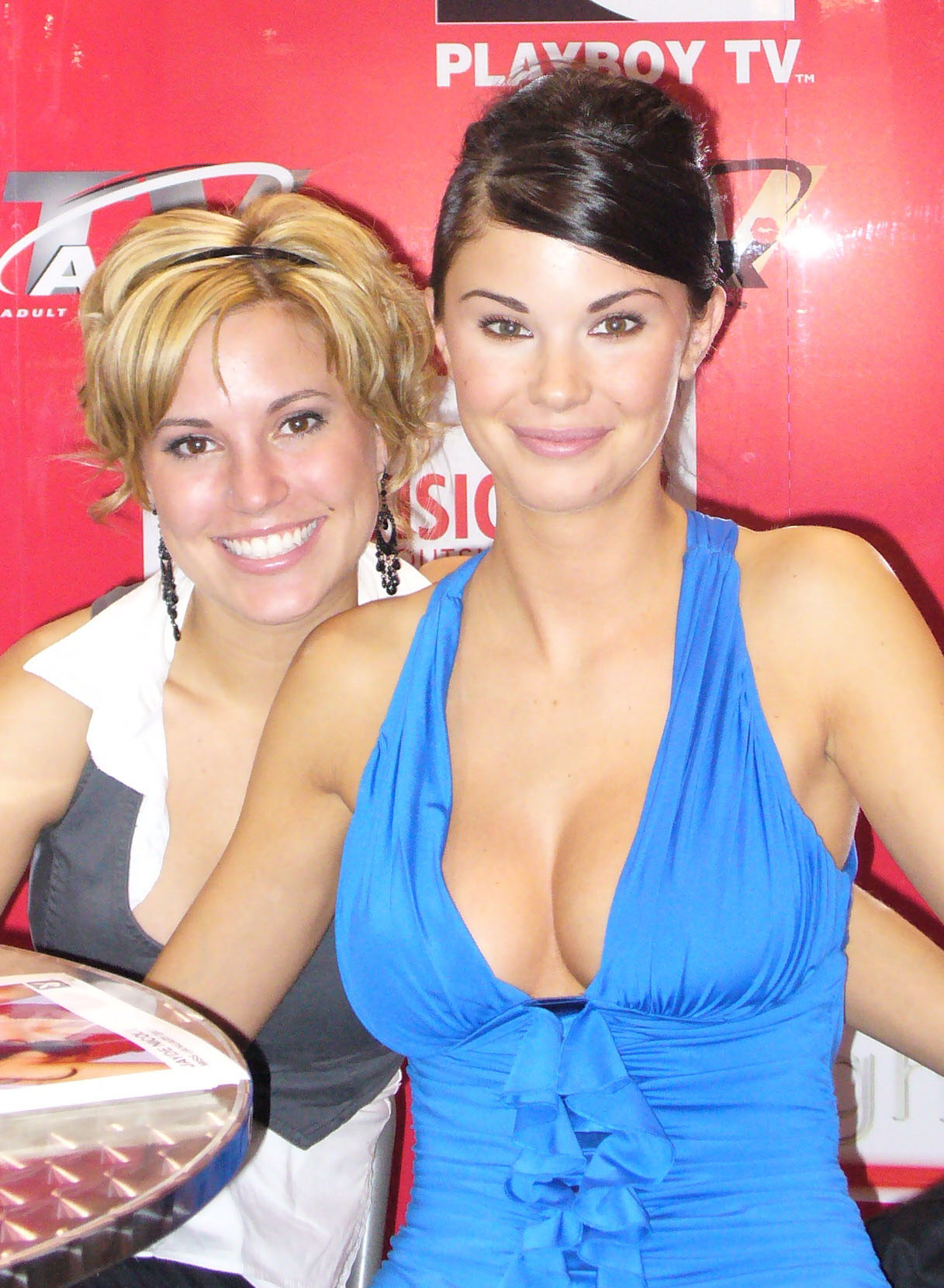 Playmaye Jayde Nicole (right) at the 2007 Everything to do with Sex show in Toronto